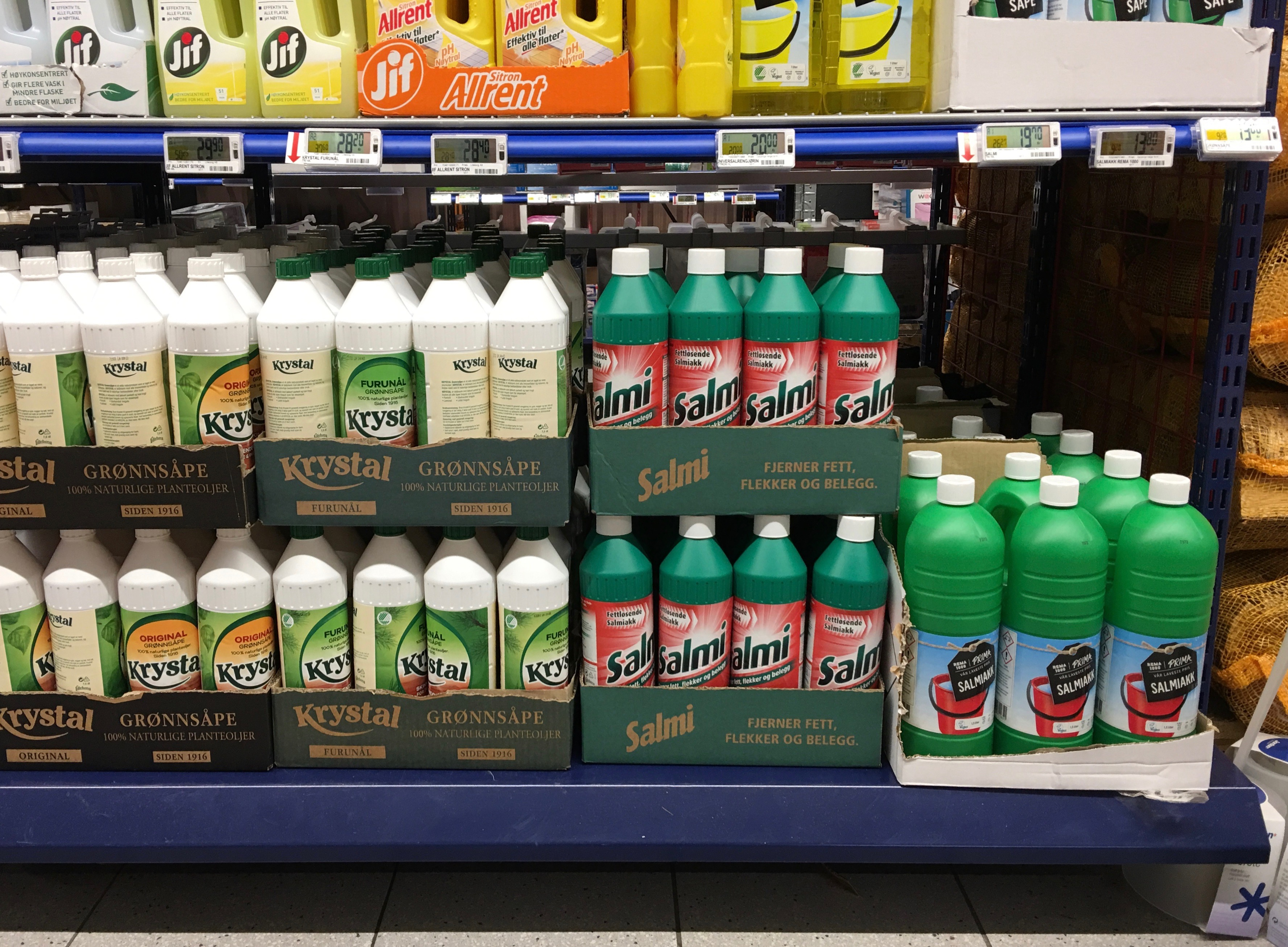 Cleaning products ("Rengjøringsartikler" ) displayed for sale in REMA 1000 (discount supermarket chain) in Tønsberg, Norway, November 2017. "Krystal grønnsåpe" = , "salmiakk" =